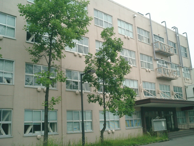 Building No.4 of National Institute of Technology, Nagaoka College